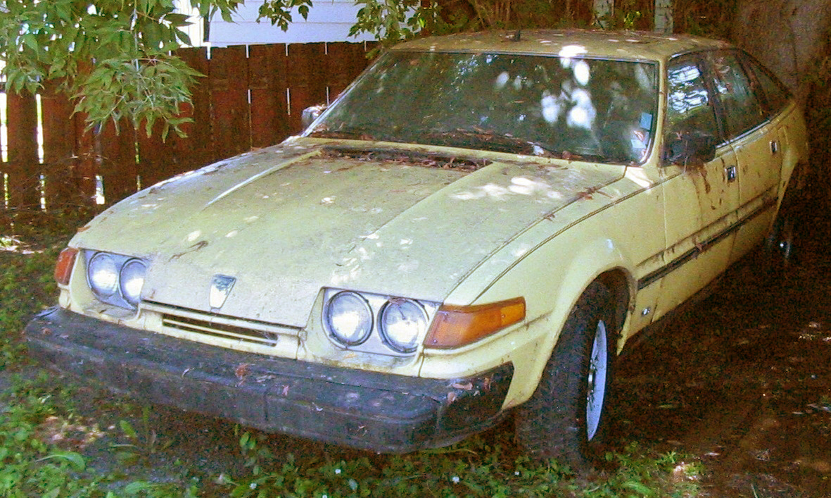 Rover SD1 photographed in Pointe-Claire, Quebec, Canada at the Auto classique Pointe-Claire 2011.